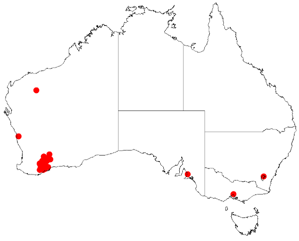 Acacia consobrina Occurrence data from Australasia Virtual Herbarium downloaded from on 8 December 2018